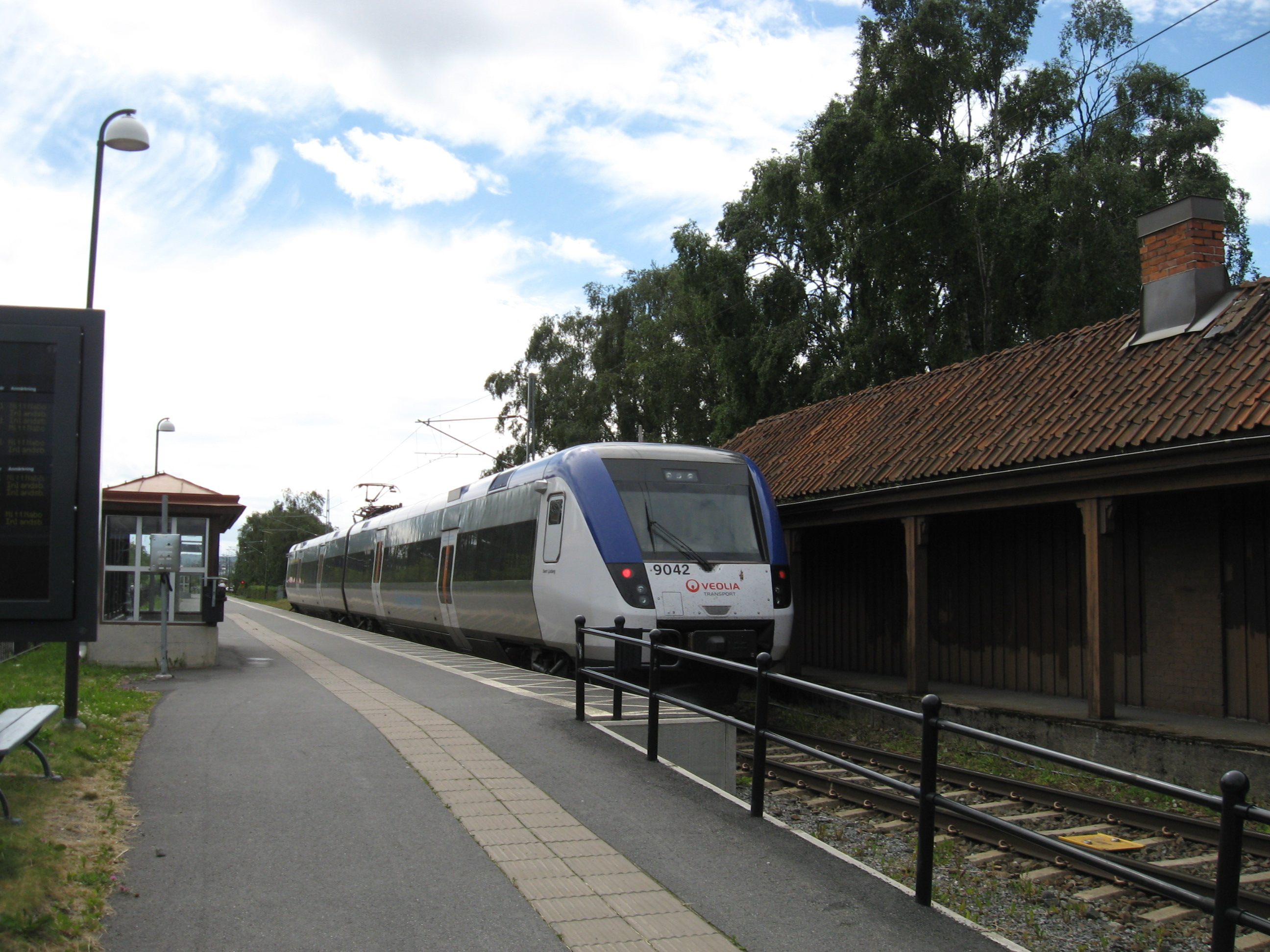 Veolia train stops by the Västra stop of Östersund